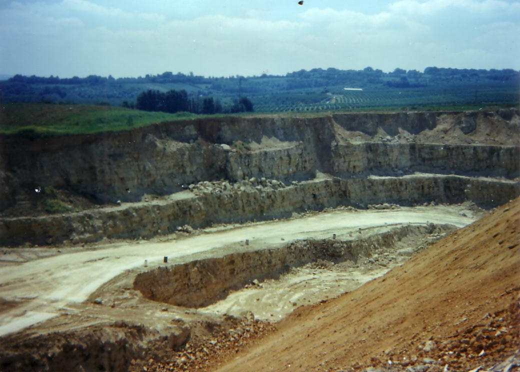 Stangate Quarry, Borough Green, just before stone levels fell below 35% and quarrying was stopped.